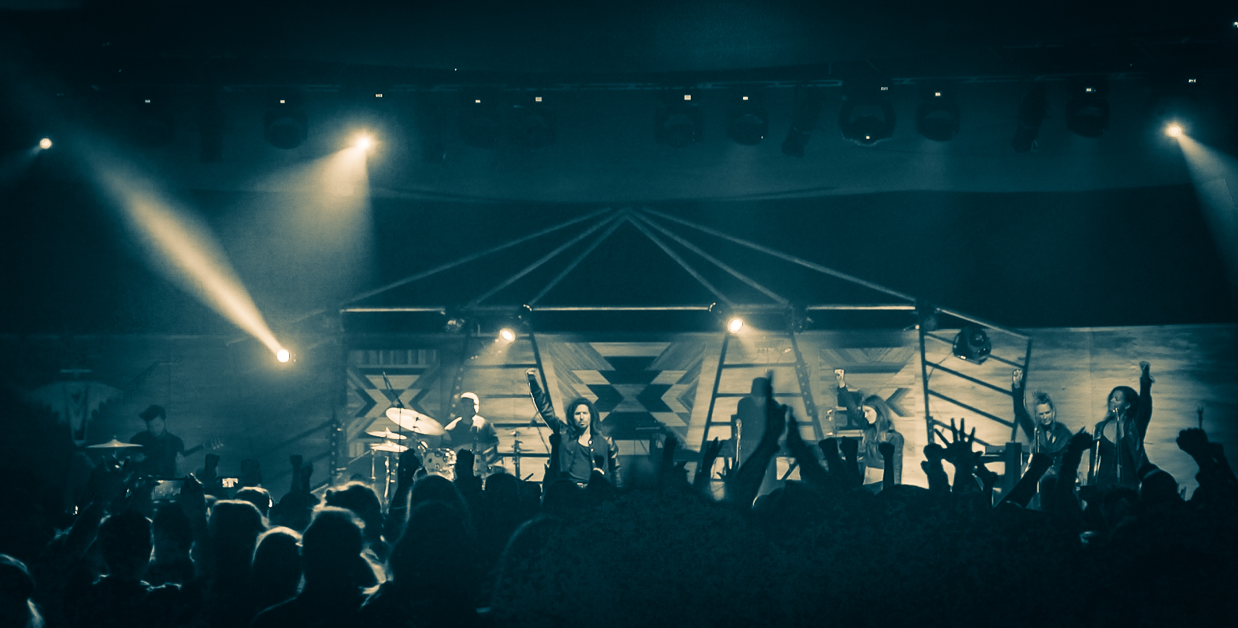 Live Shot of Liberation Movement from Joshua Tree Music Festival